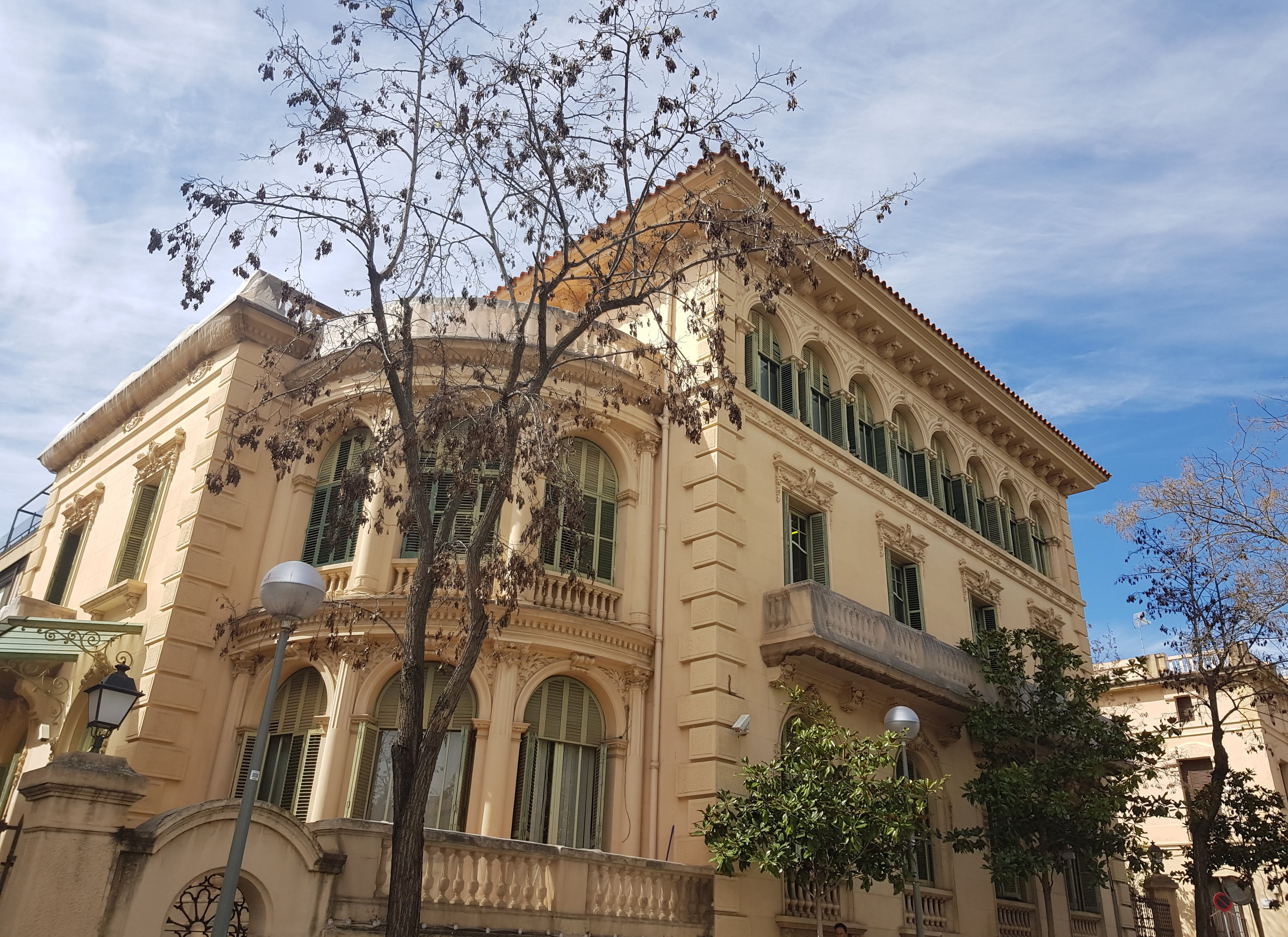 The mansion Torre San Fernando, built by Joaquim Lloret i Homs in 1918 for Emilio Heydrich on Calle d'Iradier at San Gervasi,Barcelona